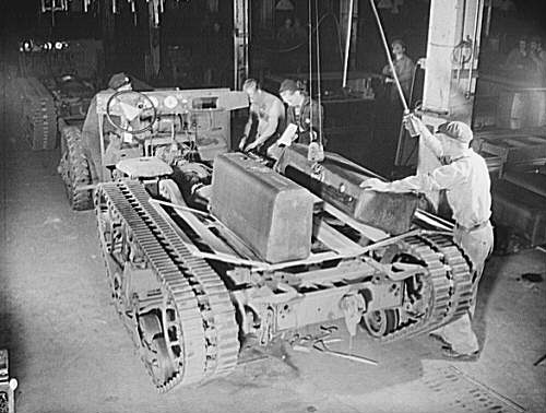 Preparing to install non-leaking gasoline tanks on the chassis of a halftrac scout car. The Eastern plant in which the body is made and installed formerly produced locks and safes. Diebold Safe and Lock Company, Canton, Ohio.